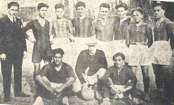 izmir based altinordu in 1925